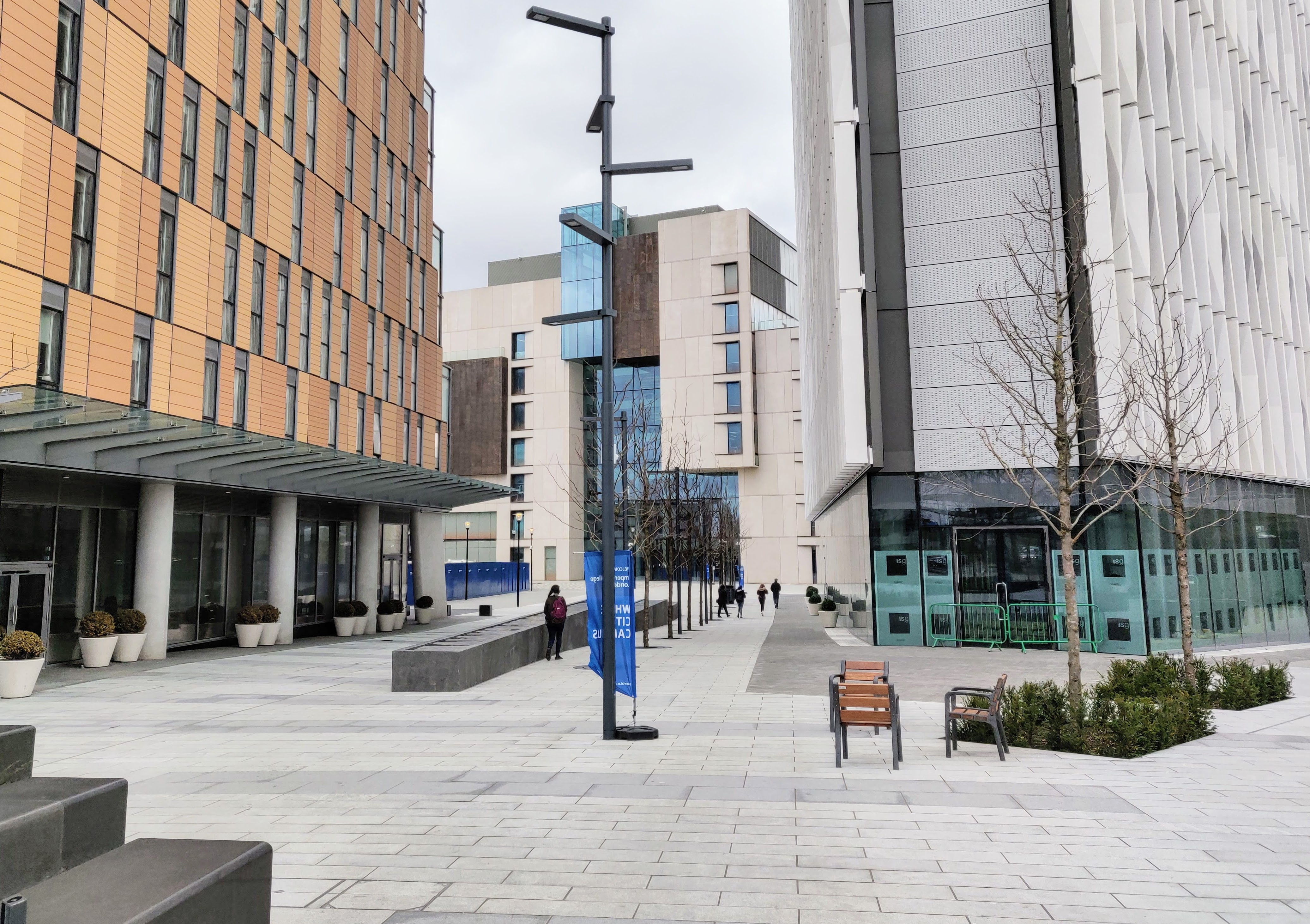 The southern entrance place off Wood Lane next to the Westway and infront of the Michael Uren Biomedical Engineering Research Hub and 88 Wood Lane at Imperial College London's White City Campus